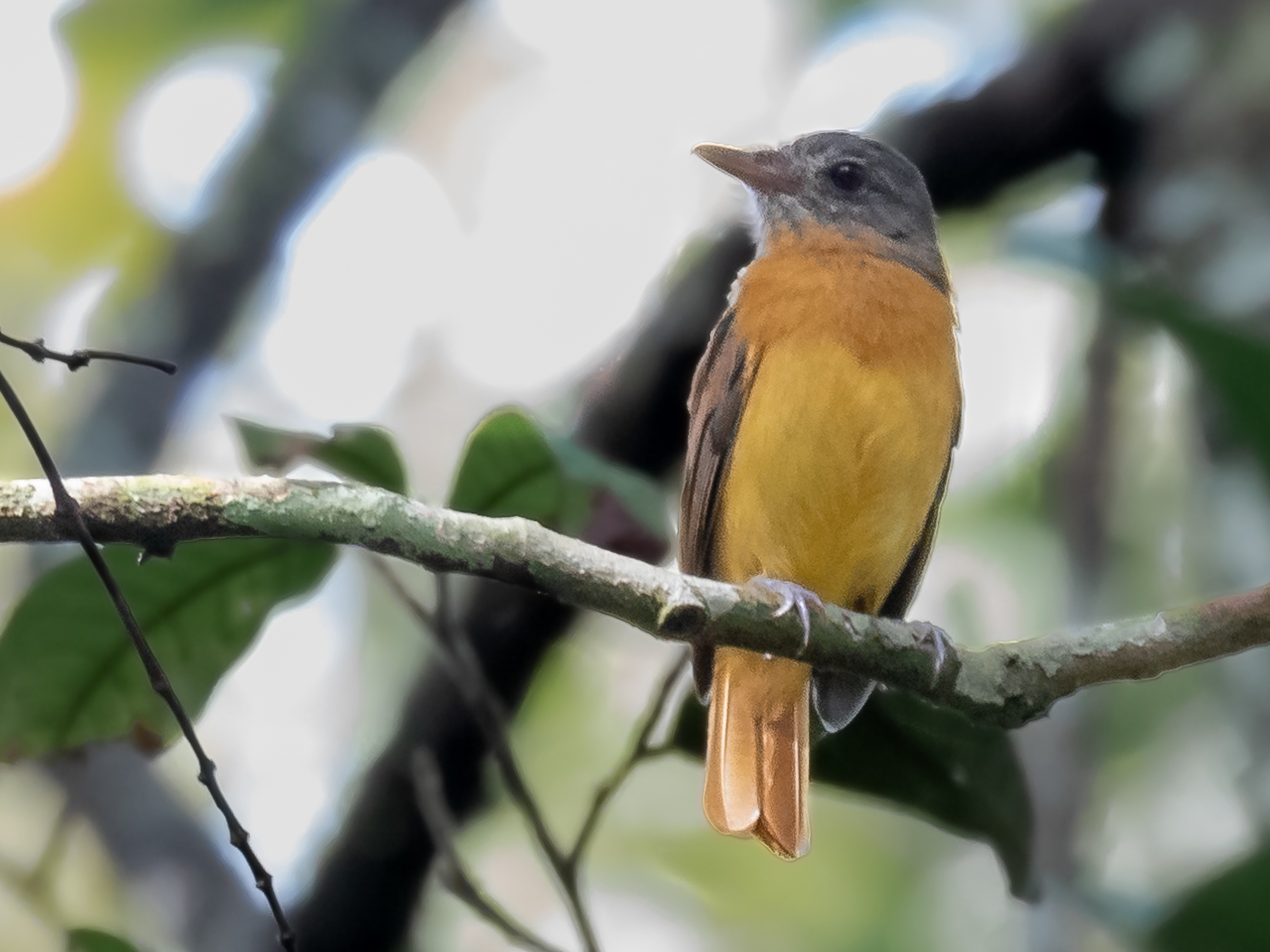 Citron-bellied Attila; Careiro, Amazonas, Brazil